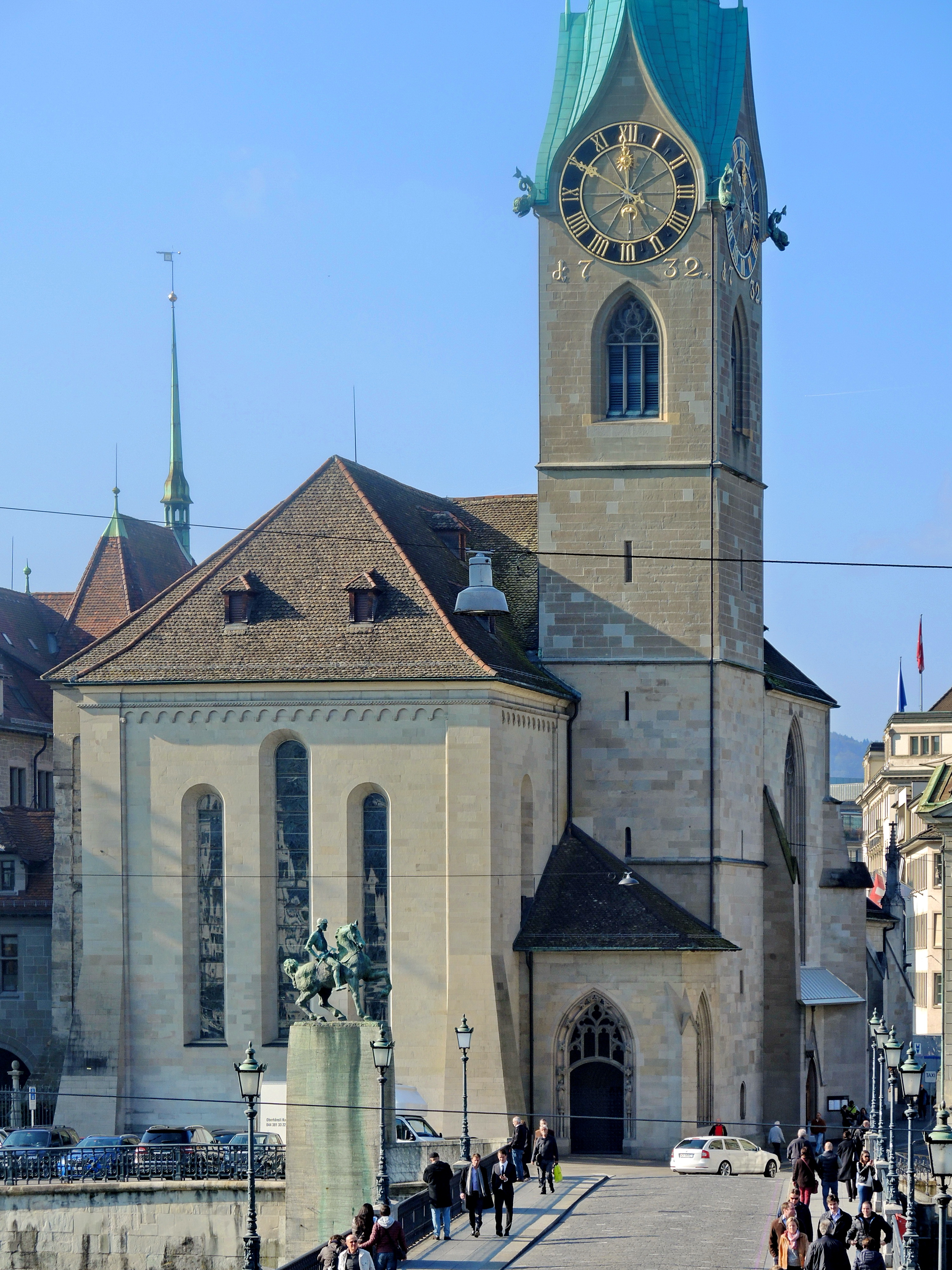 Fraumünster at the Münsterhof square in Zürich (Switzerland), as seen from Grossmünsterplatz, Münsterbrücke crossing Limmat river in the foreground.